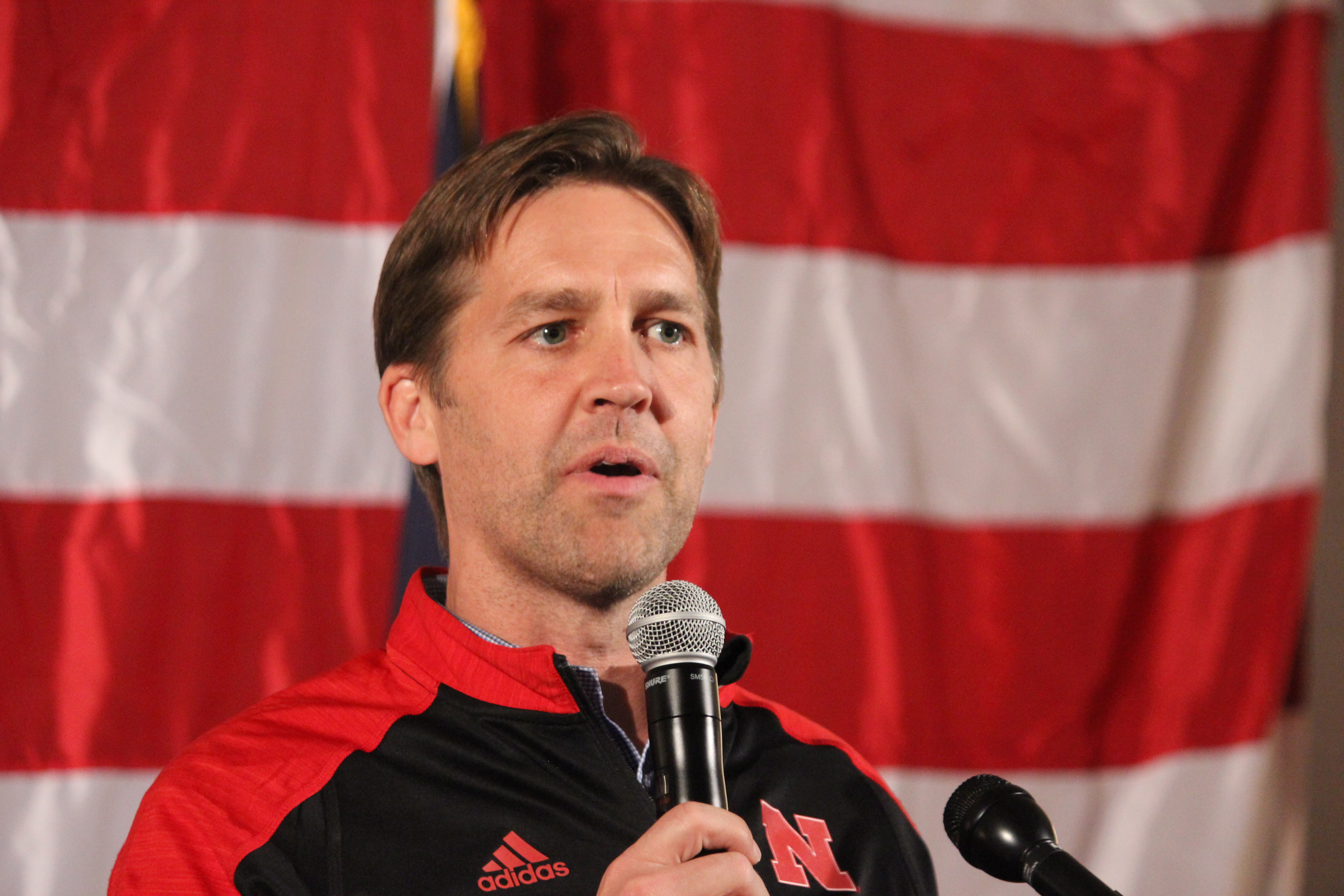 Neb. Senator Ben Sasse addresses guests at an election night victory party for Governor Pete Ricketts.